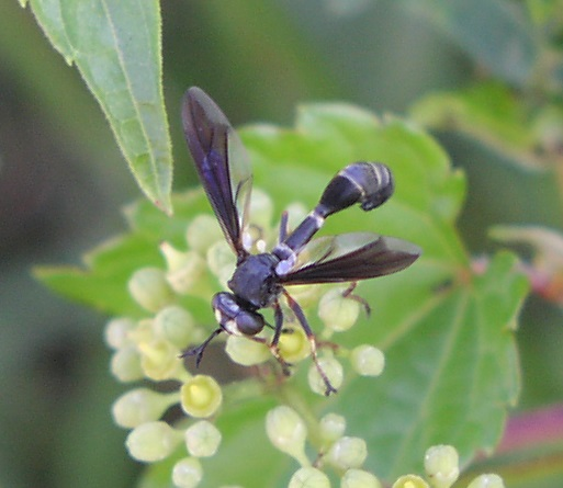 Female conopid fly, Physocephala tibialis. Pennypack Restoration Trust, Montgomery County, Pennsylvania, USA.